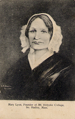 Postcard of Mary Lyon, Founder of Mount Holyoke College